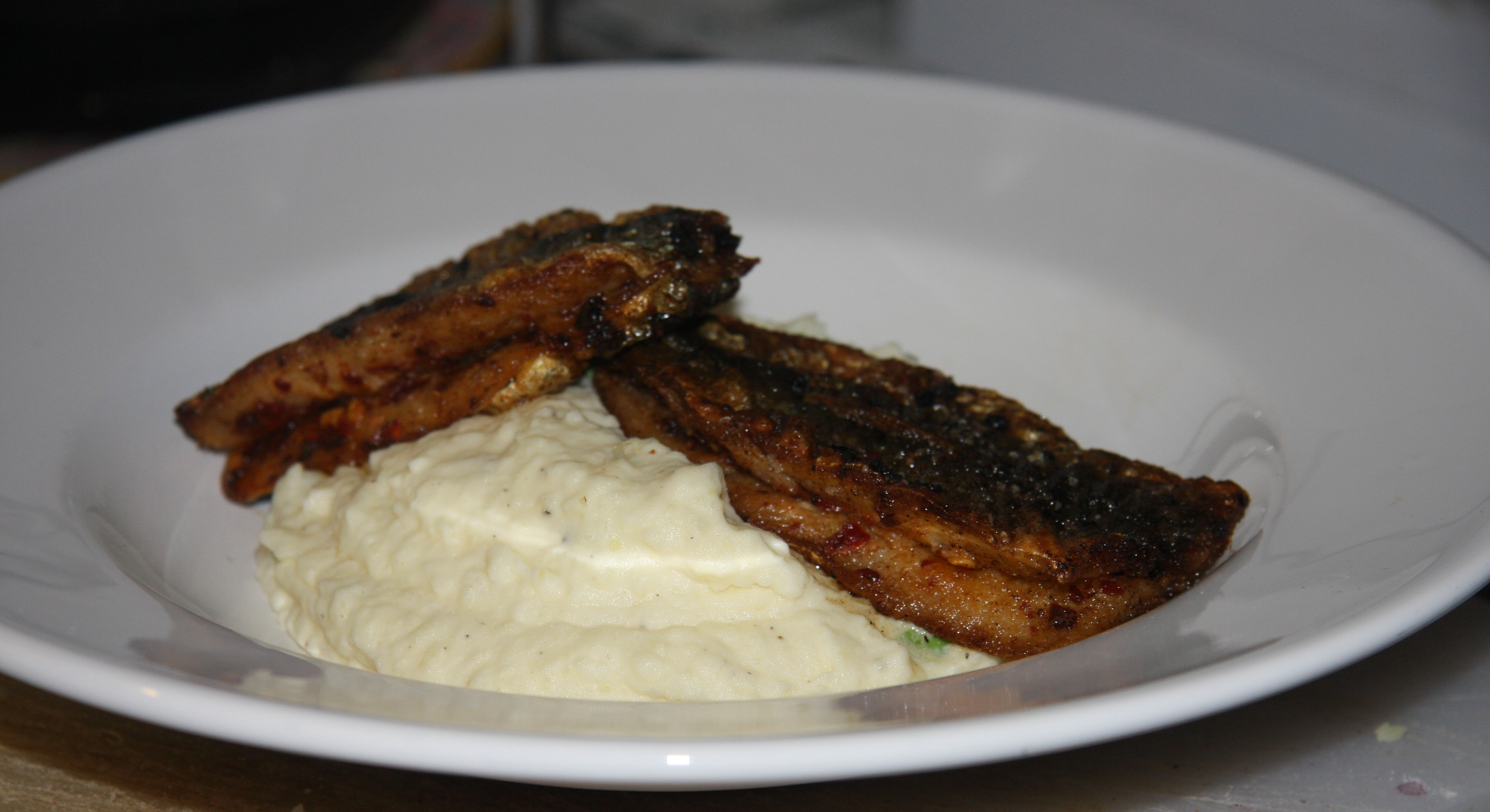 My dinner today with fried Herring and mashed potatoes